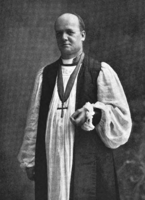 The Rt. Rev. John McKim, first Episcopal Bishop of the Missionary District of Tokyo. Consecrated June 14, 1893.